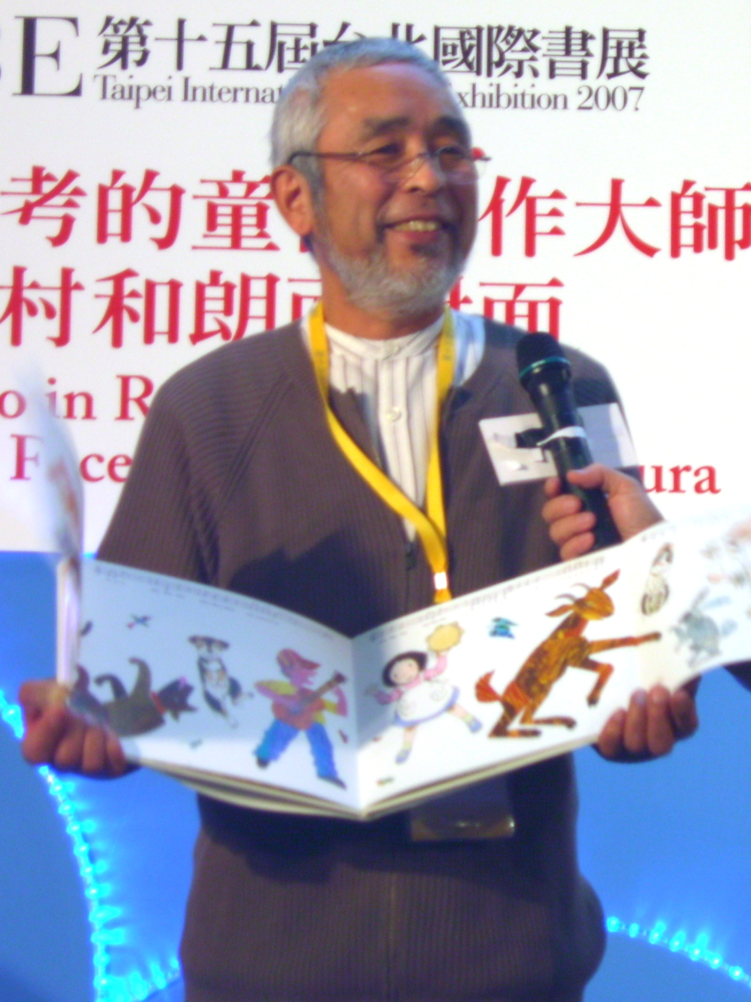 Kazuo Iwamura, a famous Japanese picture book author.